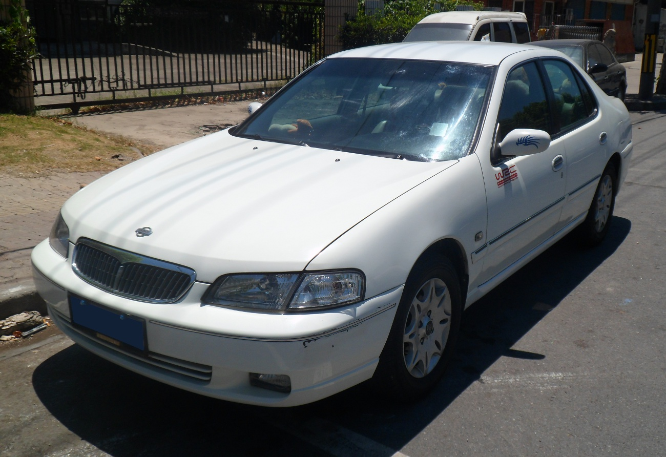 Nissan Bluebird U13 facelift photographed in Shanghai, China.